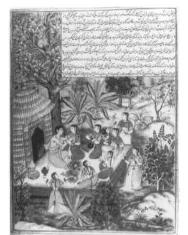 Story of Balakanda of ramayana